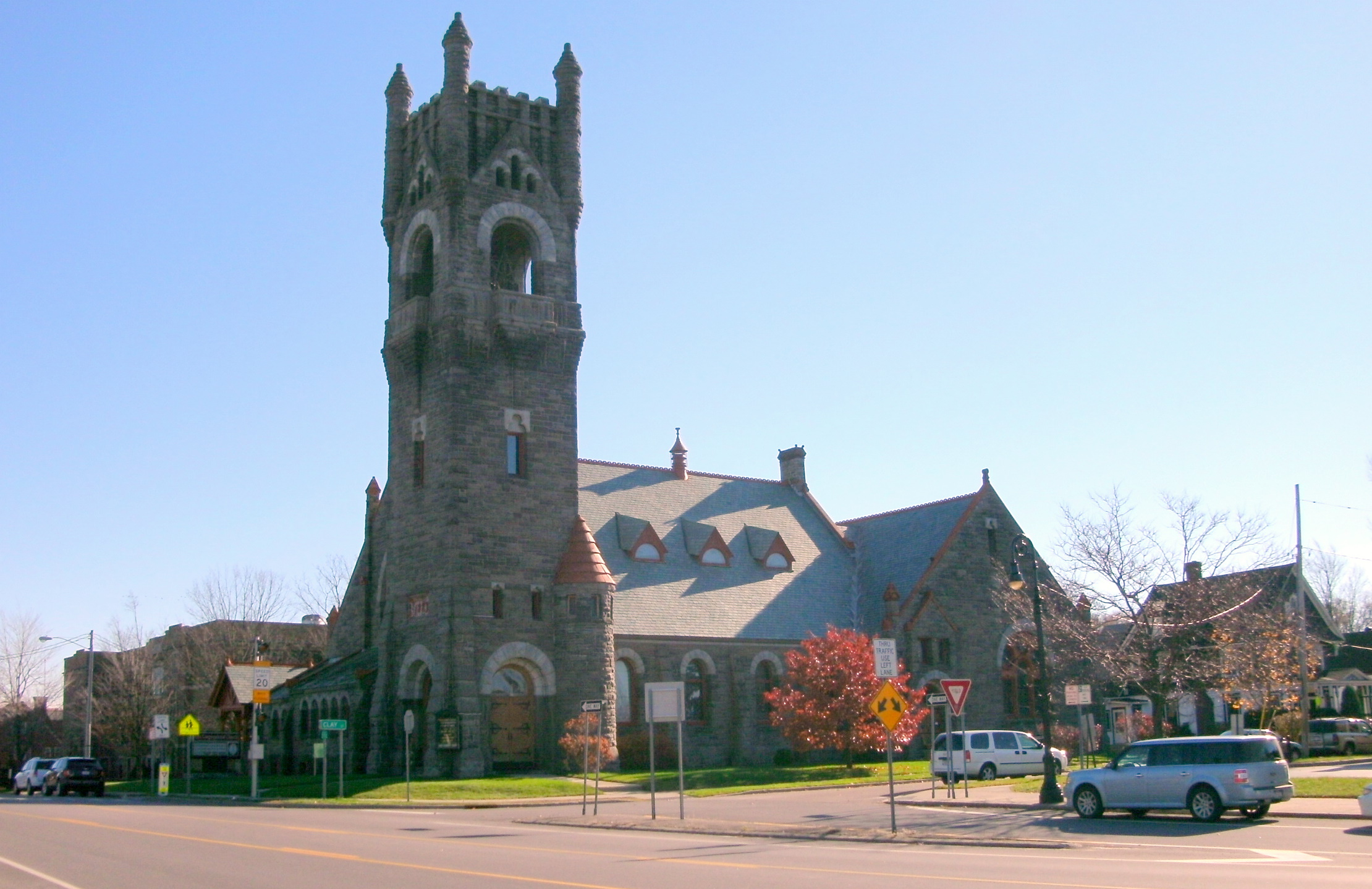 GE DIGITAL CAMERA Malone, New York